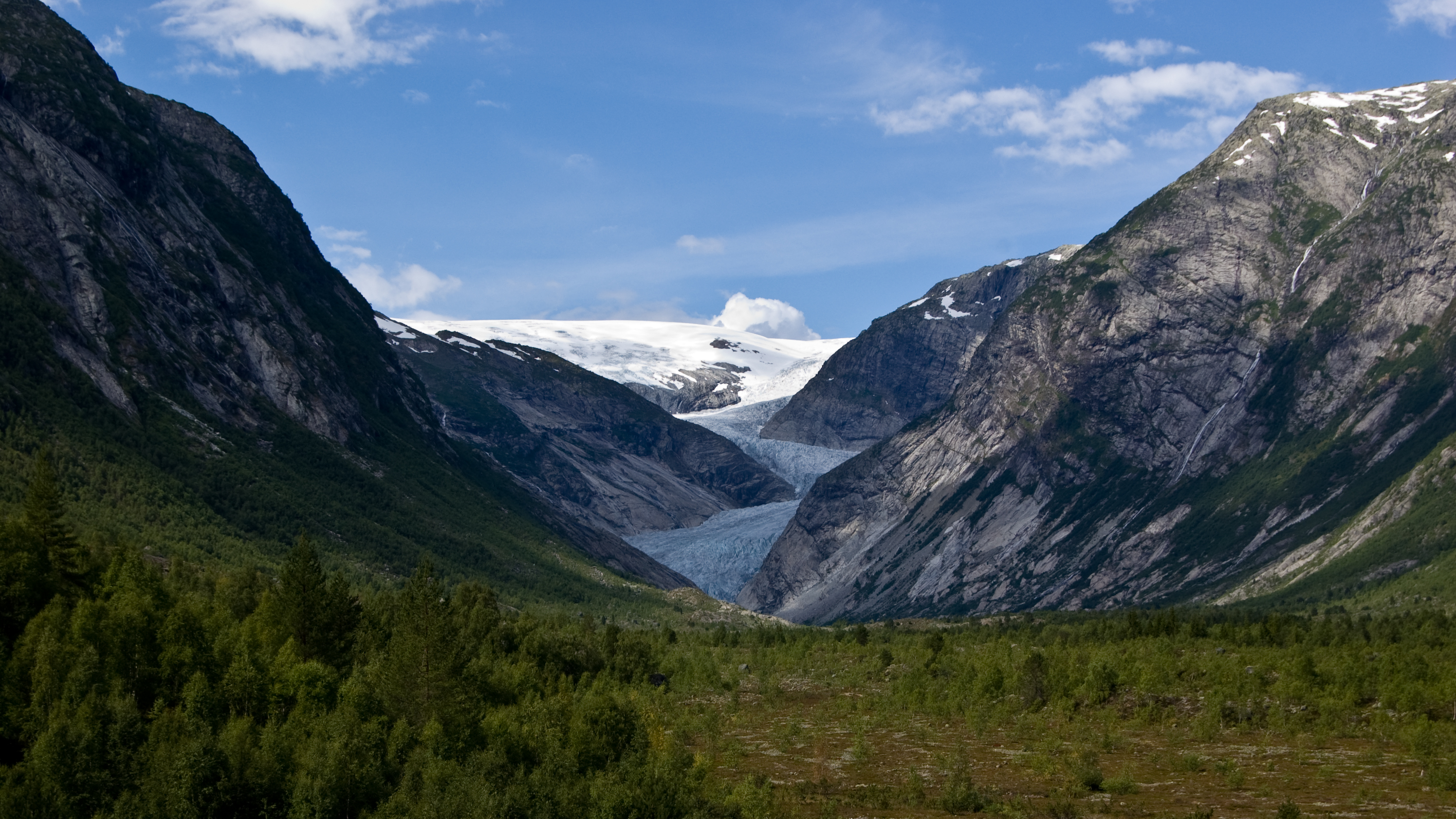 Nigardsbreen is a glacier arm of the glacier Jostedalsbreen. Nigardsbreen lies nearby Gaupne in the Jostedal, Luster, in Sogn og Fjordane in Norway. The Nigardsbreen was a big glacier in 1748 with about 48 km². Between 1930-1939 it became smaller.